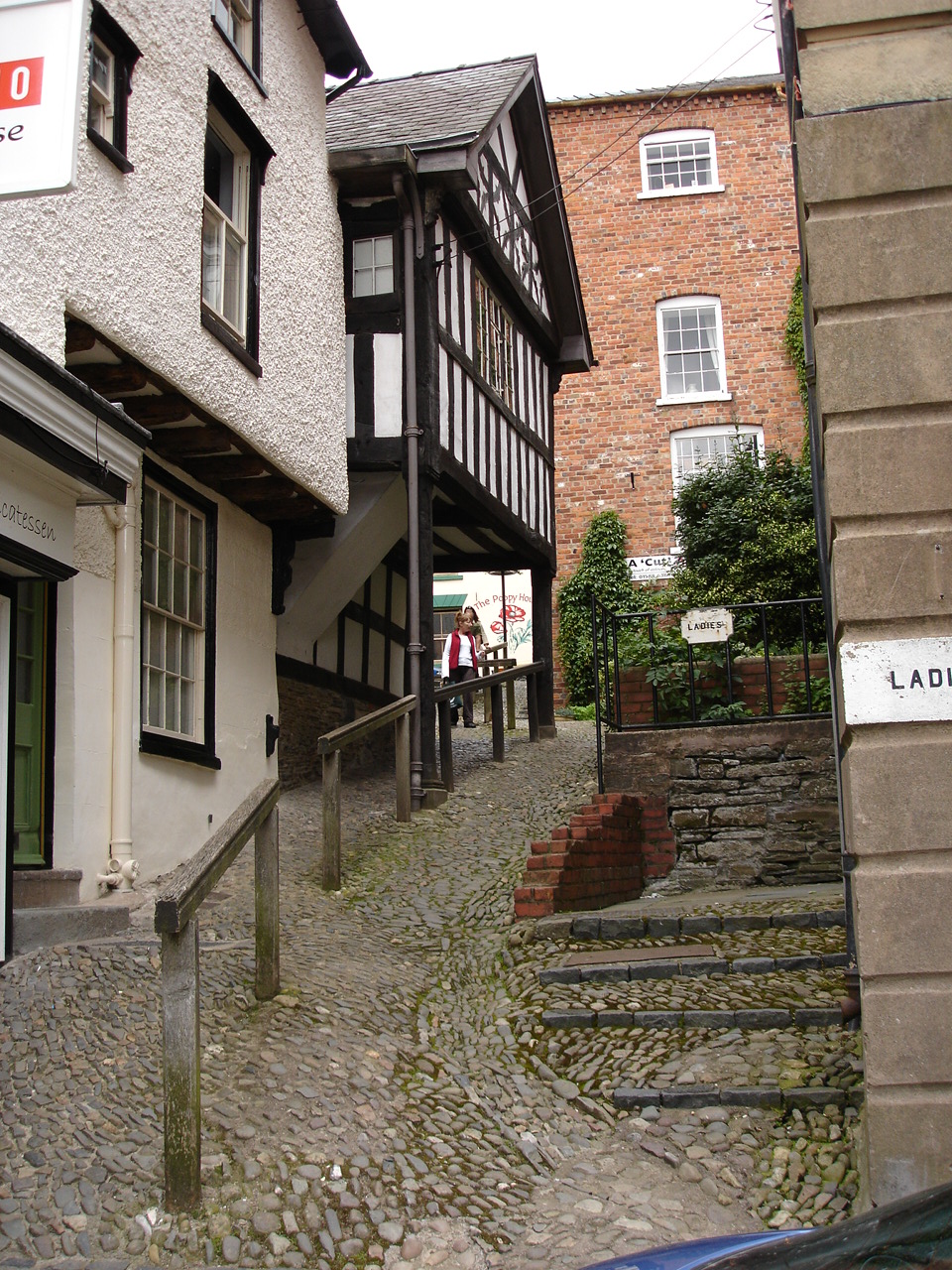 One of the streets in Bishop's Castle.